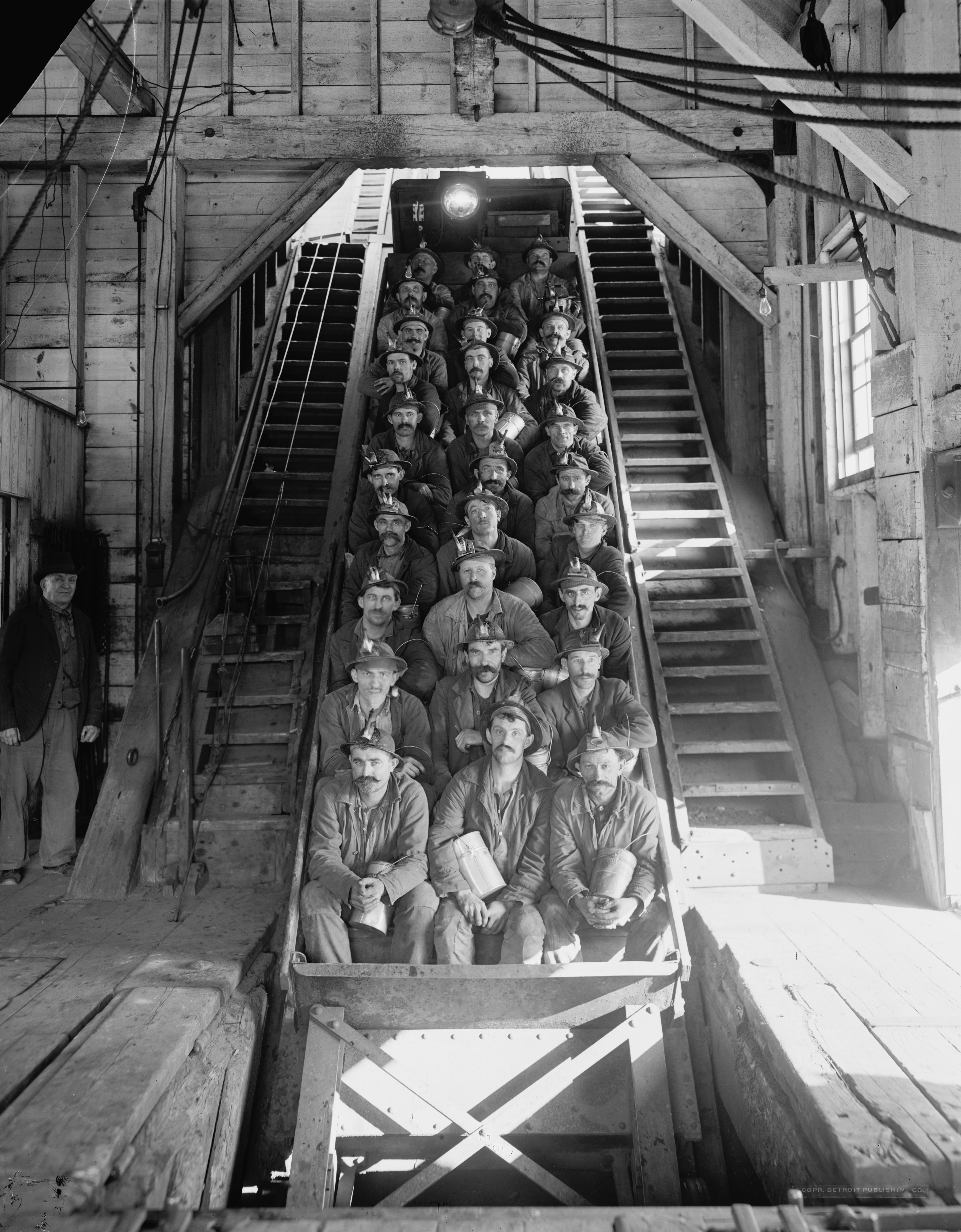 Calumet and Hecla Mine shaft No. 2, Calumet, Houghton County, Michigan. REPRODUCTION NUMBER LC-D4-19051 DLC]